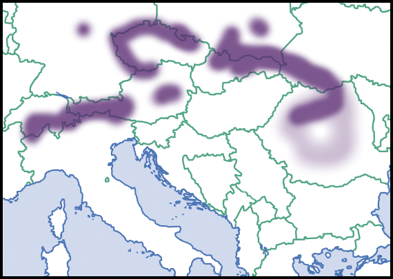 Semilimax kotulae (Westerlund, 1883). Distribution in Europe, scientific state of knowledge of 2012. Source description in English. Light colour indicated rare occurrences or regions where the species could eventually be expected to occur. Dark colour indicated relatively reliable occurrences, as well as regions where the species was expected to occur, and where the species was not known to be extremely rare. Dark colour indications were not necessarily based on published records. Species summary in AnimalBase